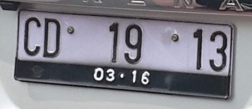 An Indonesian diplomatic vehicle registration plate. This particular motor vehicle belongs to the Norwegian Embassy in Jakarta.